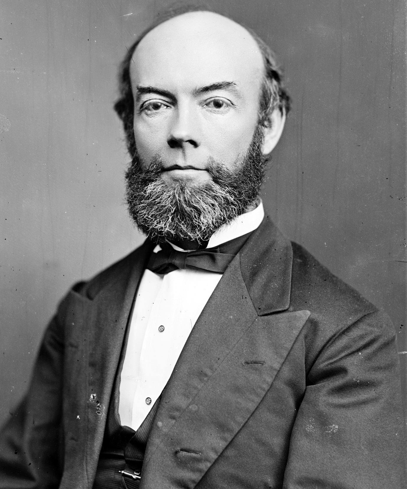 Aylett R. Cotton, US Representative from Iowa